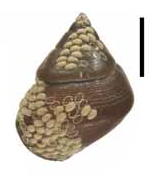 Photo of an abapertural view of a holotype shell of Tylomelania sinabartfeldi. Holotype MZB Gst. 12.112, scale bar is 5 mm.